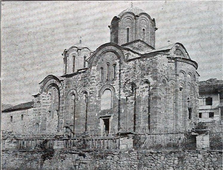 Lesnovo monastery, middle of XIV century, Republic of Macedonia